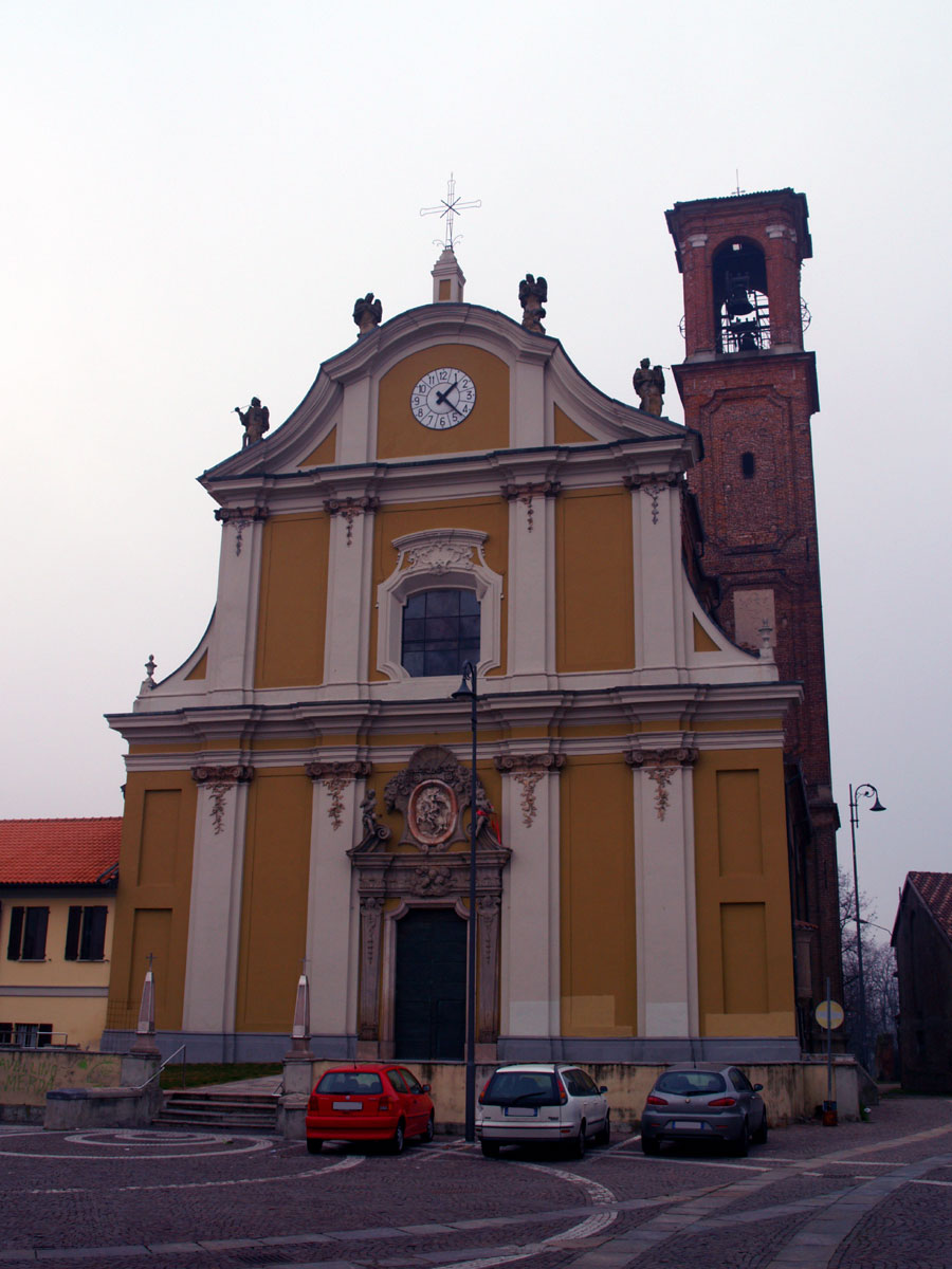 Pieve Emanuele (Milan province, Italy), St. Alessandro Parish facade and its surroundings.